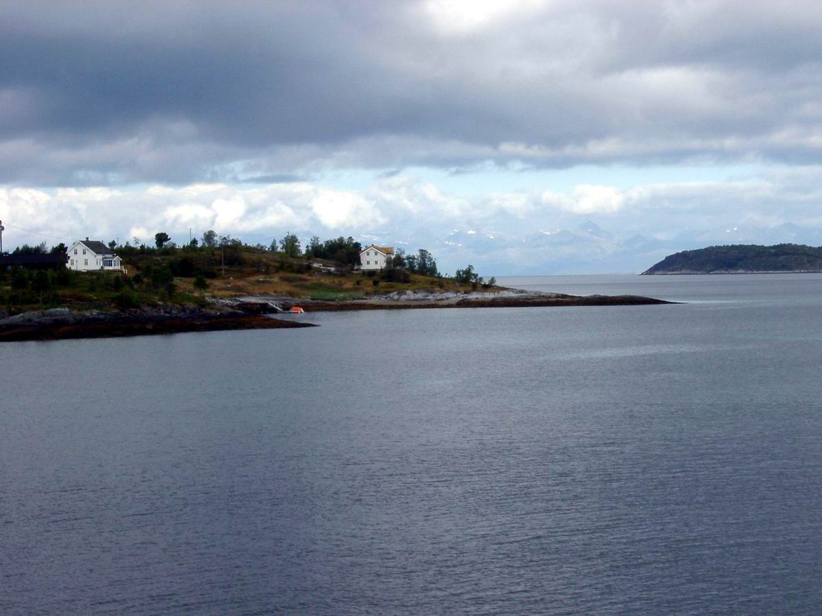 View from Skarberget in Tysfjord towrds north